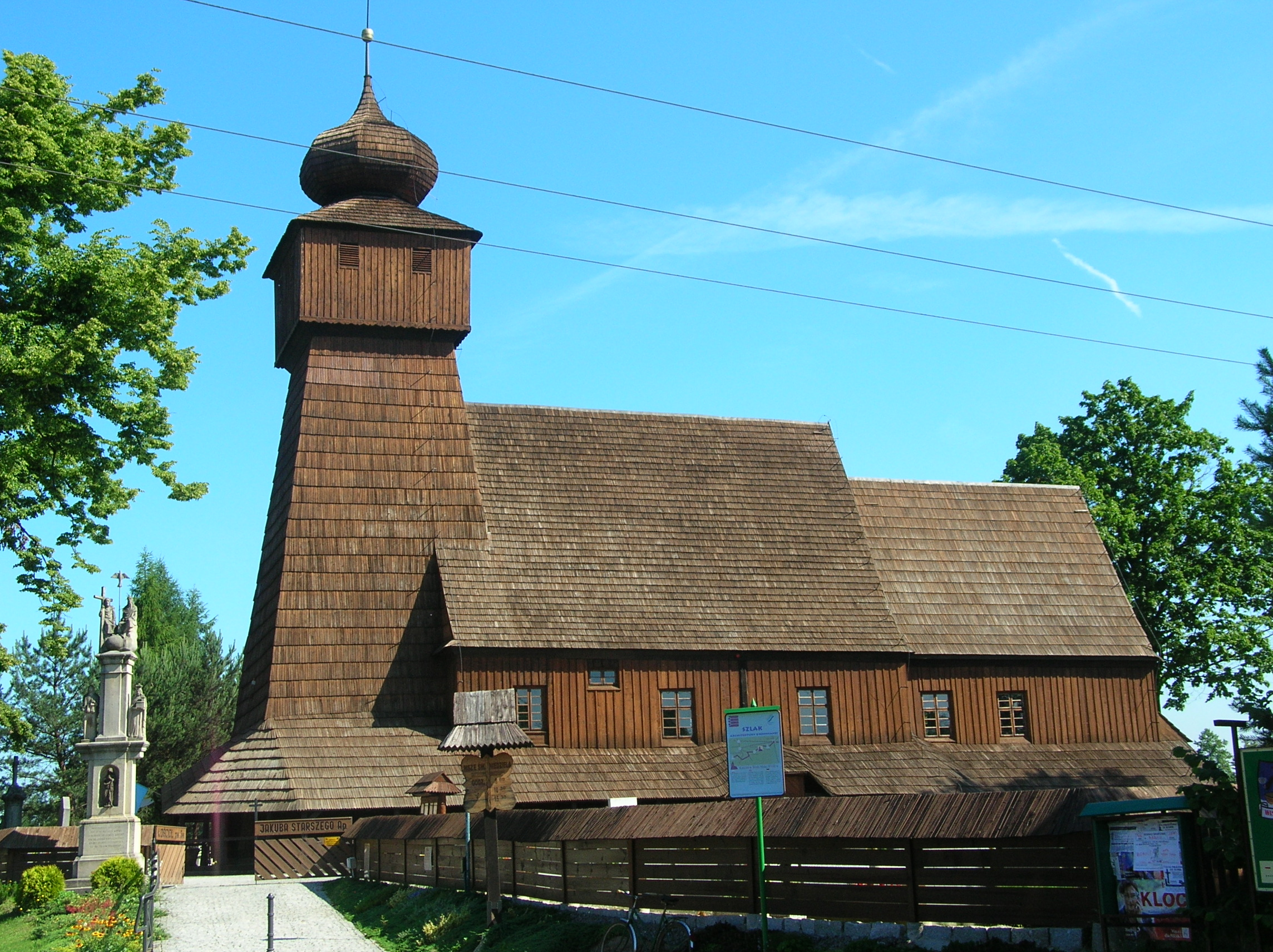 Wooden church in Wisła Mała (1775)